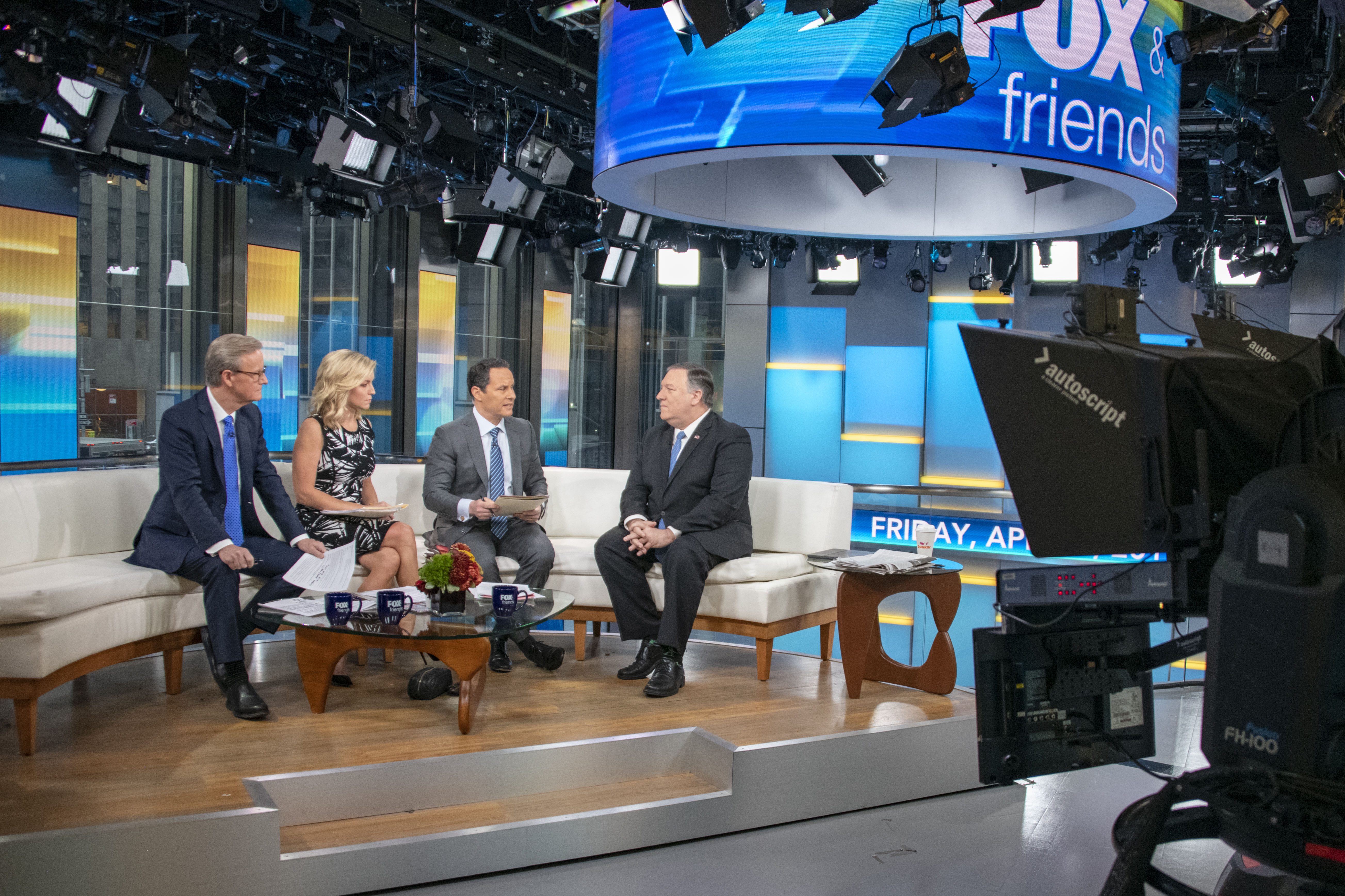 U.S. Secretary of State Michael R. Pompeo participates in a media interview with Fox and Friends in New York City, New York on April 5, 2019. [State Department photo by Ron Przysucha/ Public Domain]